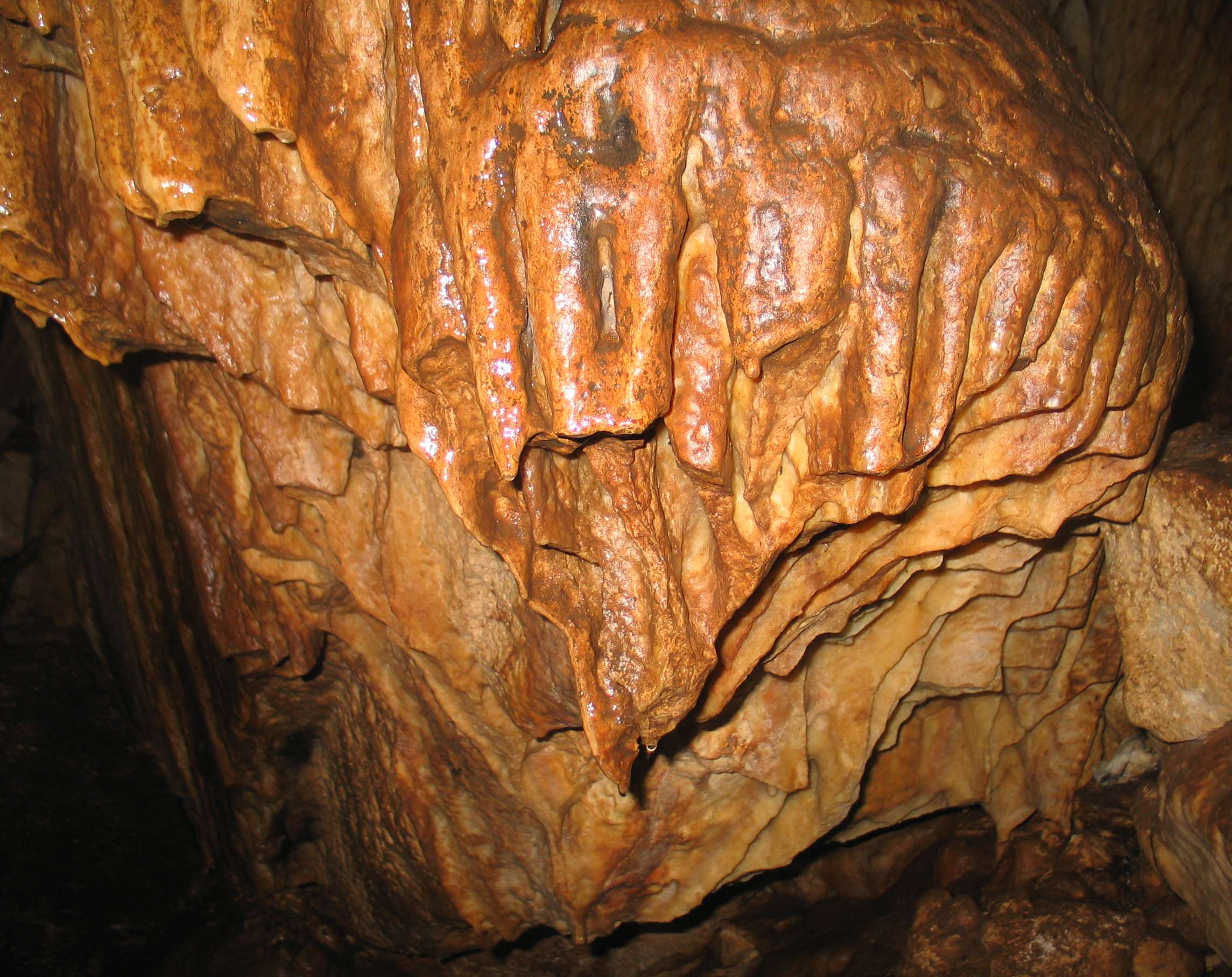 Alma cave, near moshav Alma, Israel.